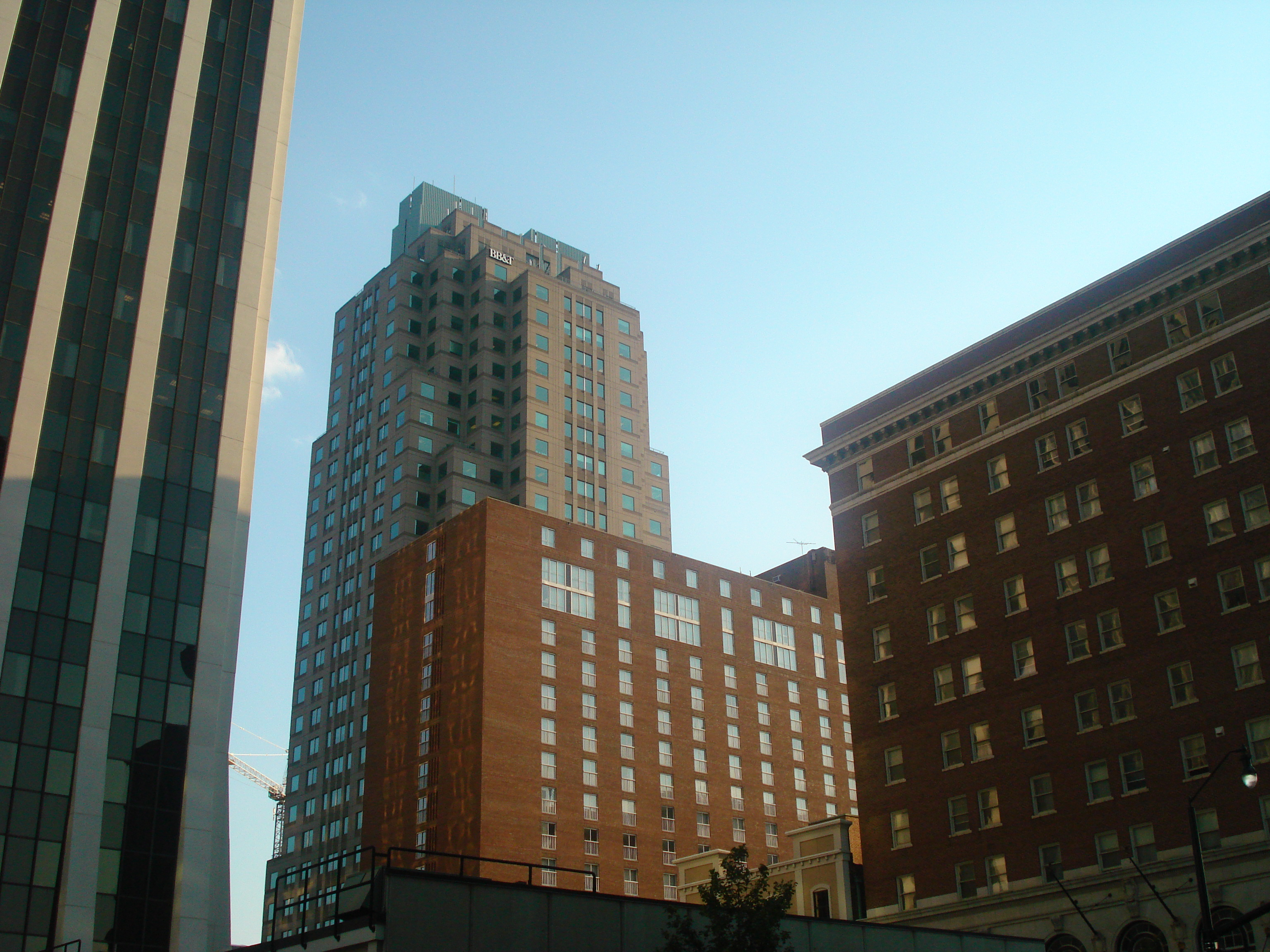 Category:Images of North Carolina